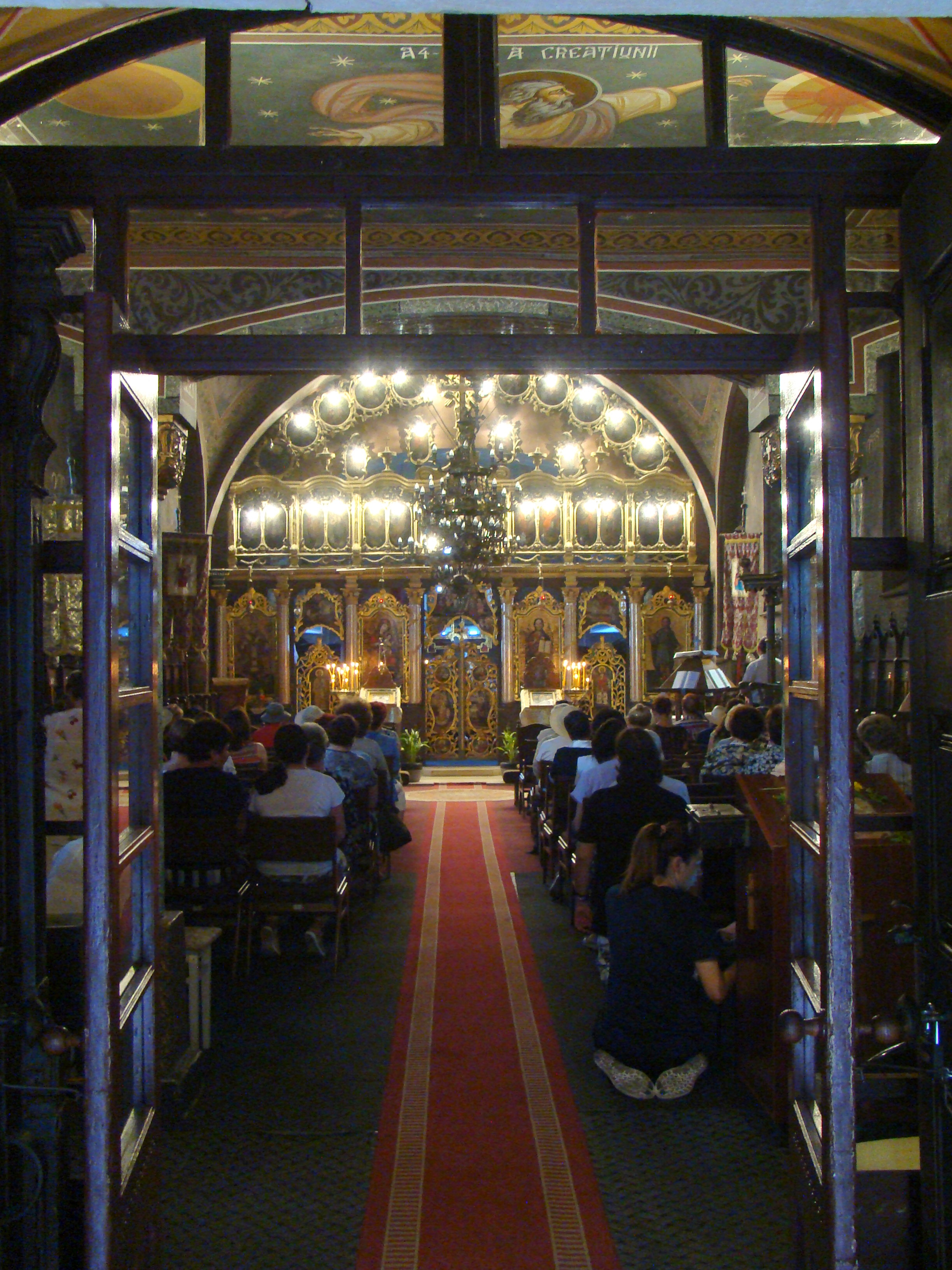 Church of the Annunciation in Alba Iulia, Alba county, Romania 01